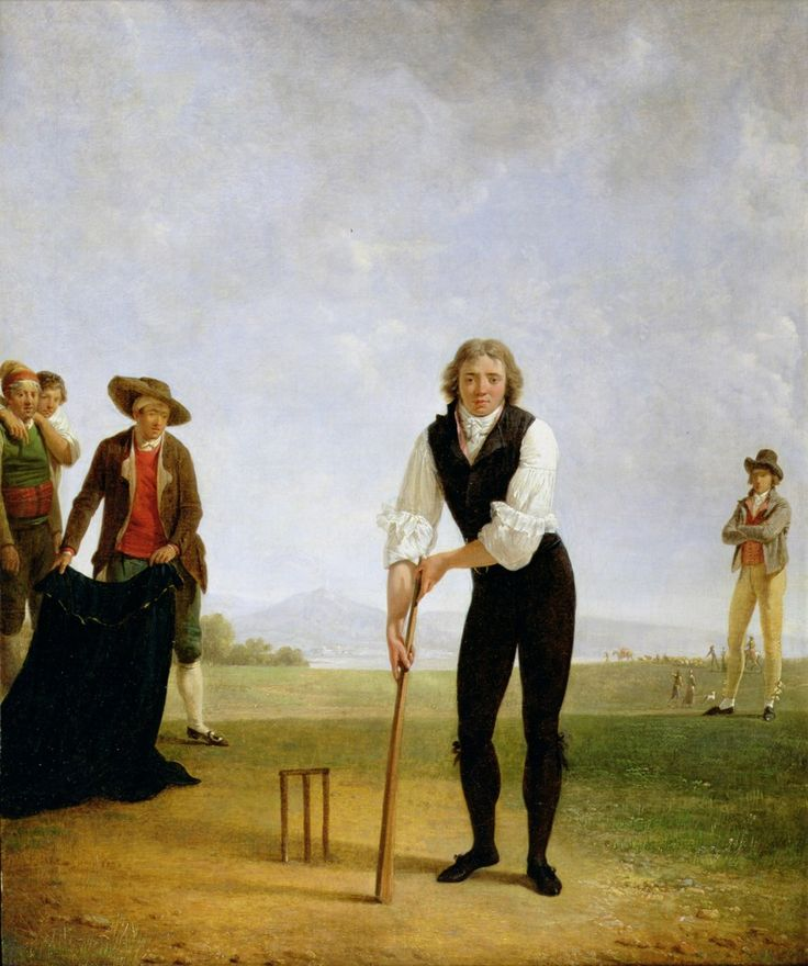 Mr. Hope, of Amsterdam, playing cricket. Signed, and dated Rome 1792. Oil on canvas (62 x 50 cm). Private collection.